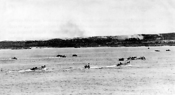 The Invasion of Ie Shima was well prepared but met considerable opposition. Assault boats approach the island as supporting shell fire is lifted from the beaches and moved inland.